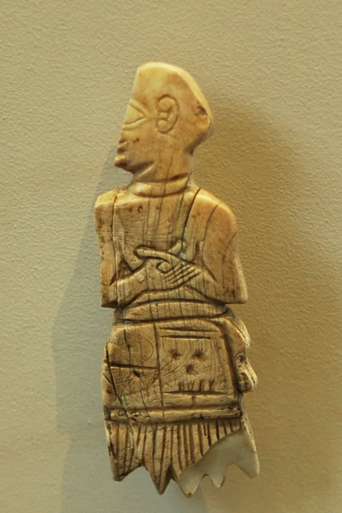 Shell inlay inscripted with the name of Akurgal, son of Ur-Nanshe, king of Lagash. Early Dynastic III (ca. 2500 BC). Found in Telloh, ancient Girsu.(Ur-Nanshe, first half of 24th century BC, 2400 to 2350 BC.)